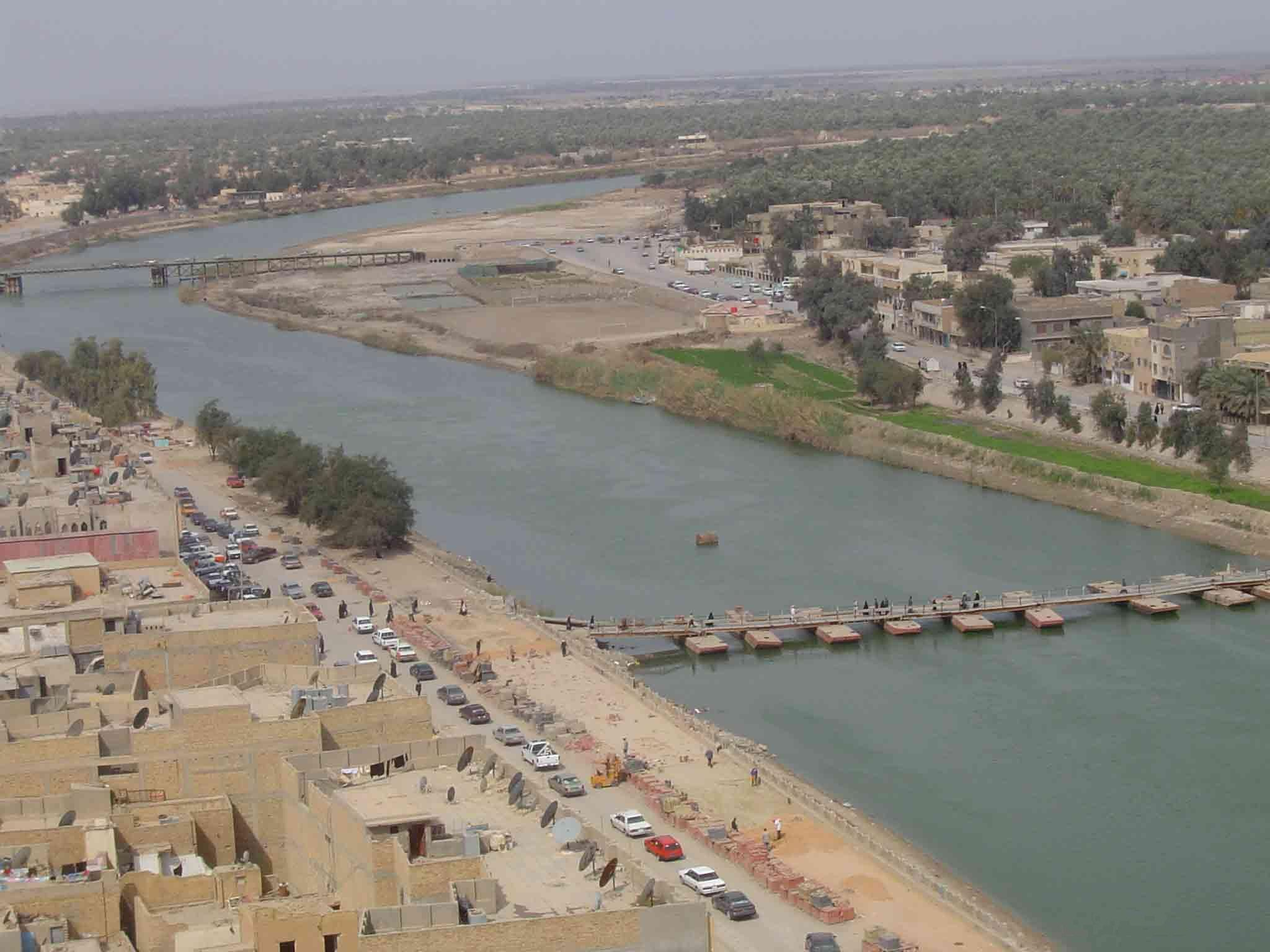 Euprates at Samawa, looking into Mesopotamia's palm groves